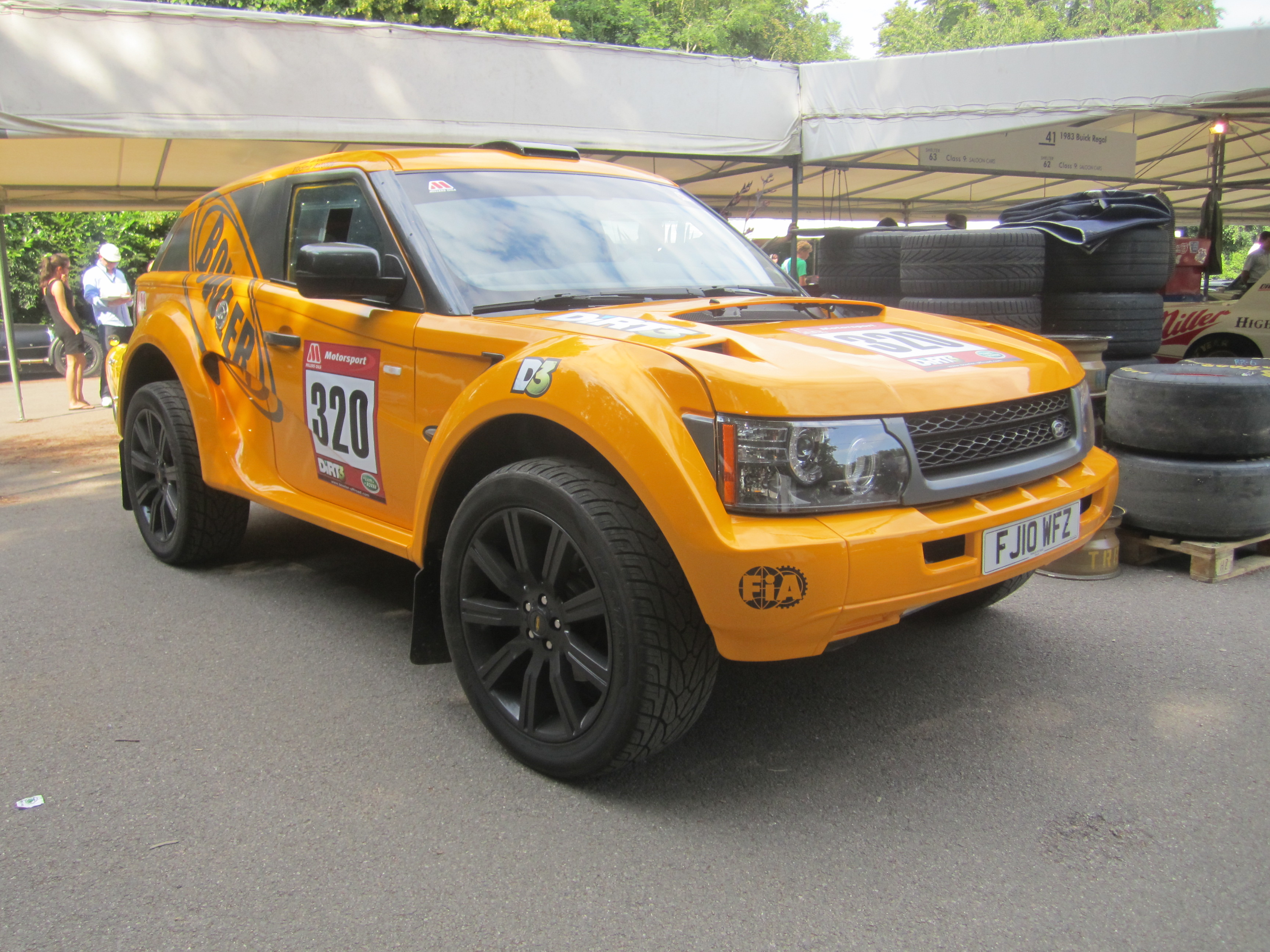 Taken at the Goodwood Festival of Speed England 2011-Hill Climb Contender